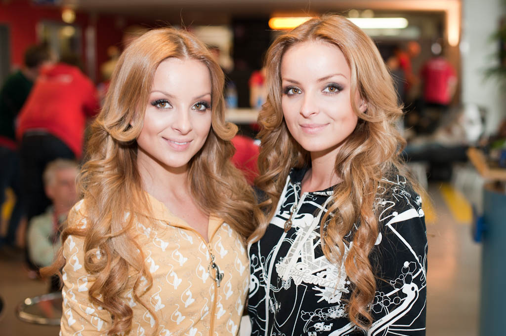 The Twiins, unlucky Slovaquie contestants at Eurovision Song Contest 2011. Not seeing them making to the finals really broke my heart.